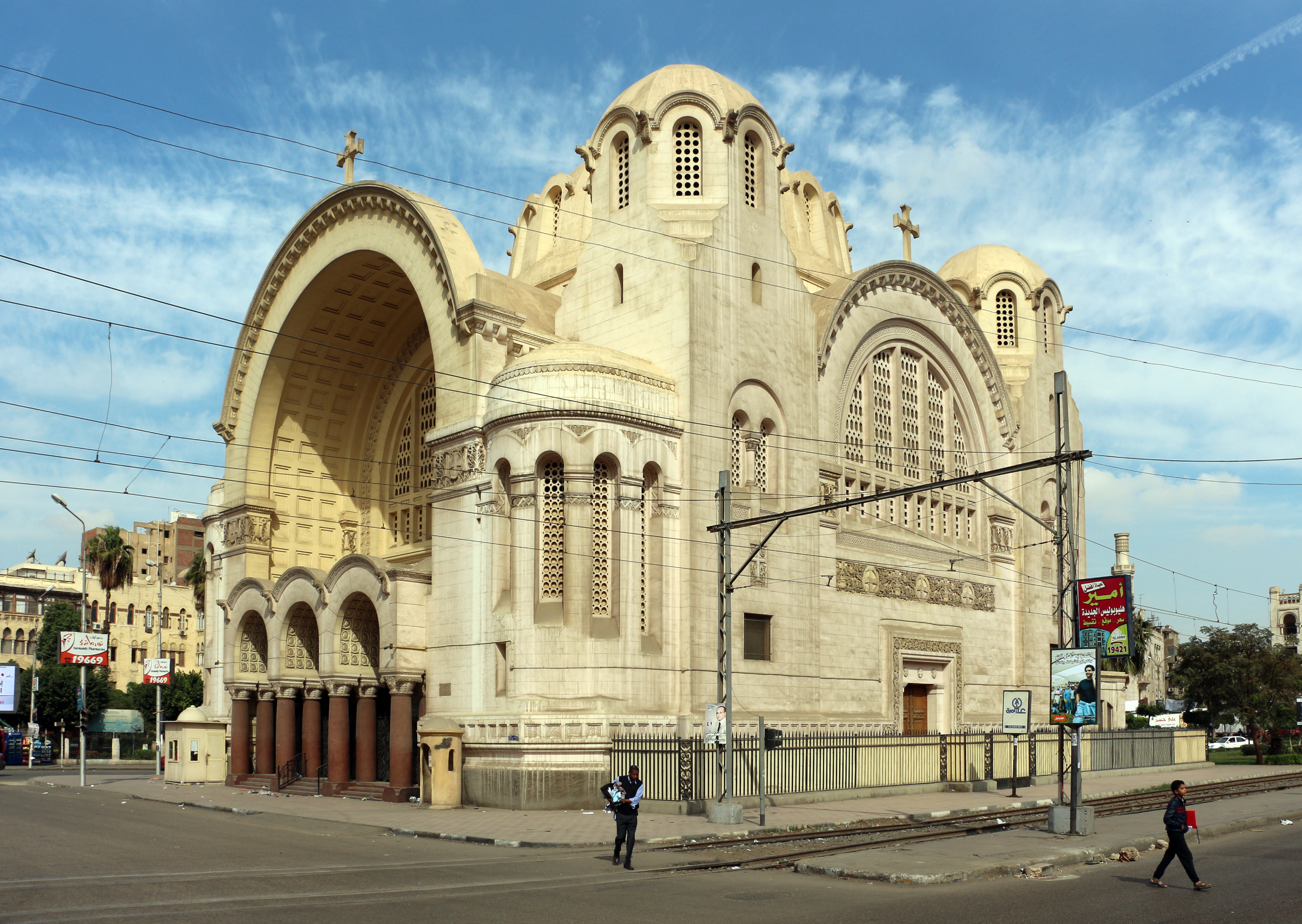 Heliopolis (Cairo suburb)